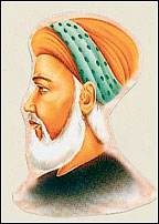 Mirza Muhammad Rafi Sauda, an Urdu poet of 18th century